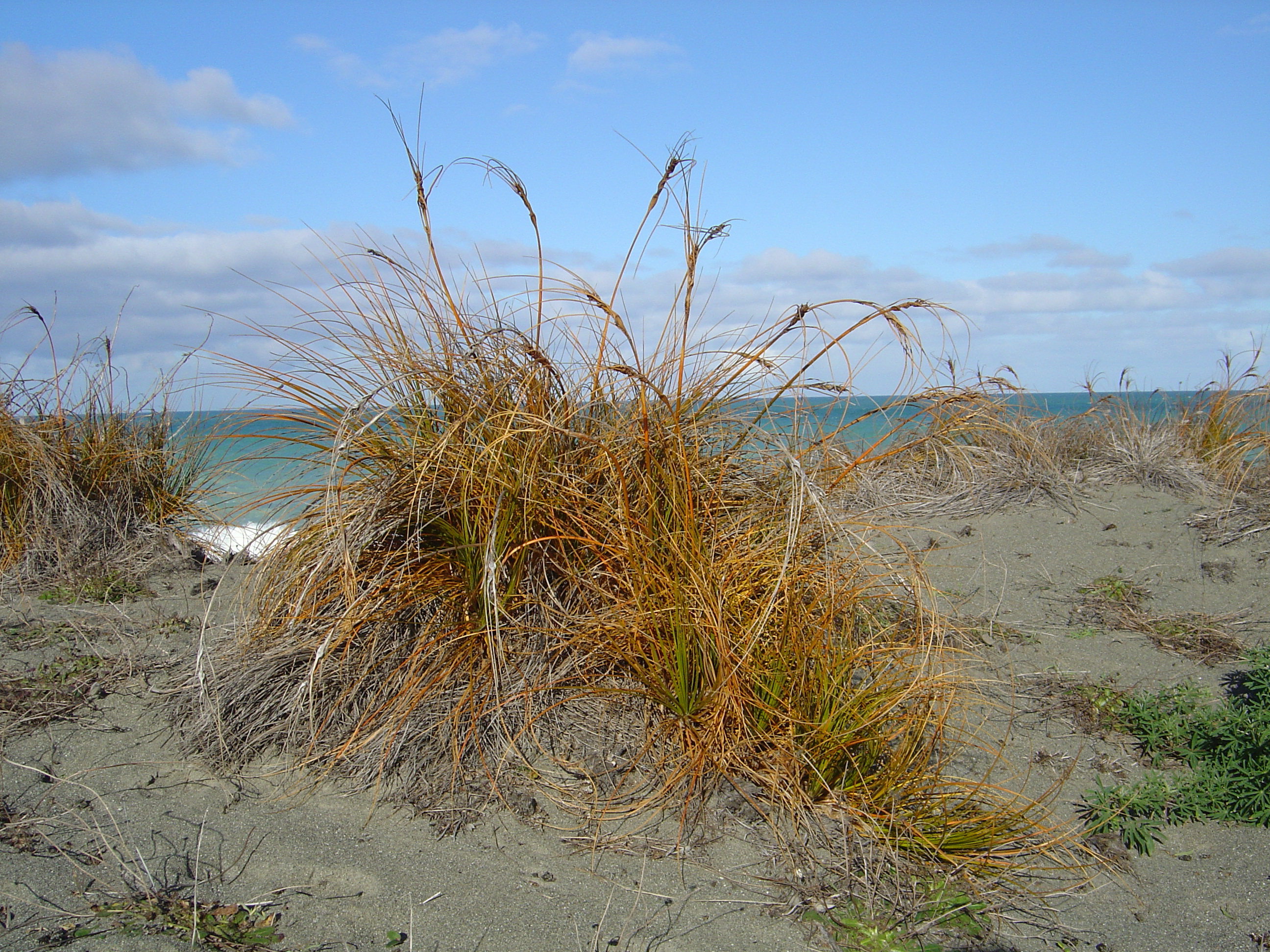 Pīngao (Ficinia spiralis) on Kaitorete Spit in the South Island of New Zealand.